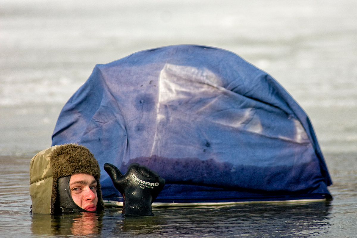 Neck-deep in the ice water, 2005